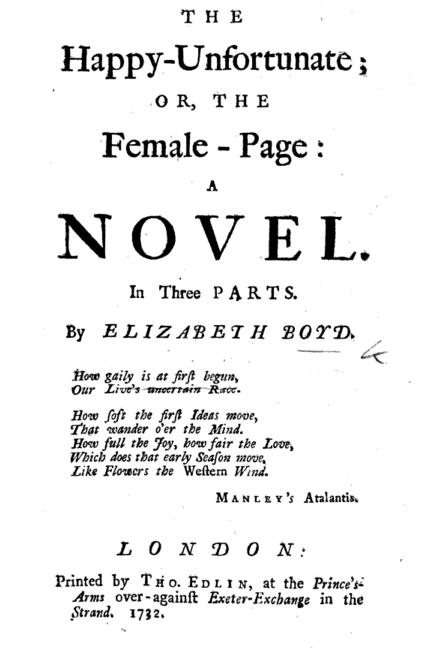 Frontispiece to the eighteenth century Novel by Elizabeth Boyd (c. 1710 – 1745) .